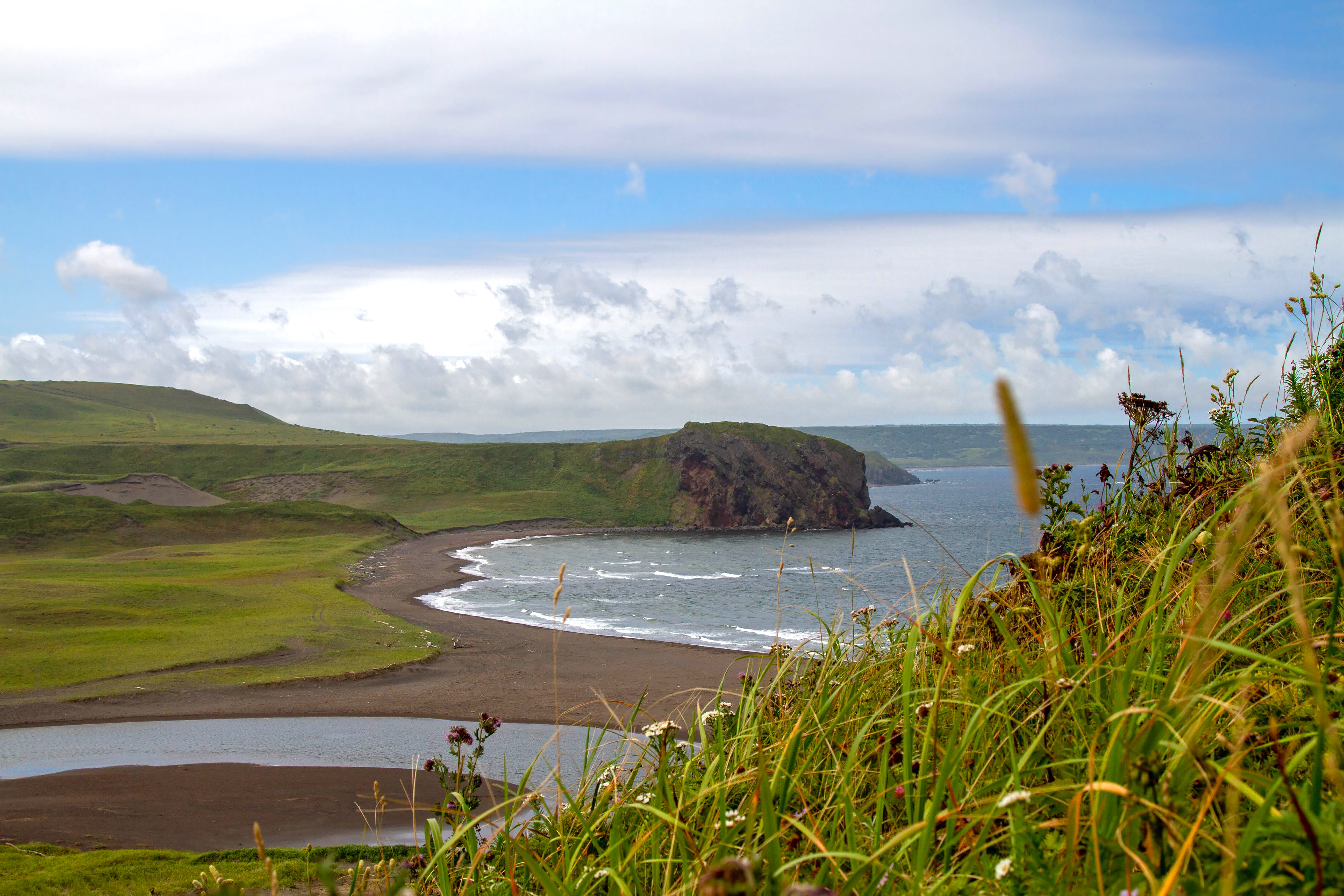 Iturup Island nature, fall 2019